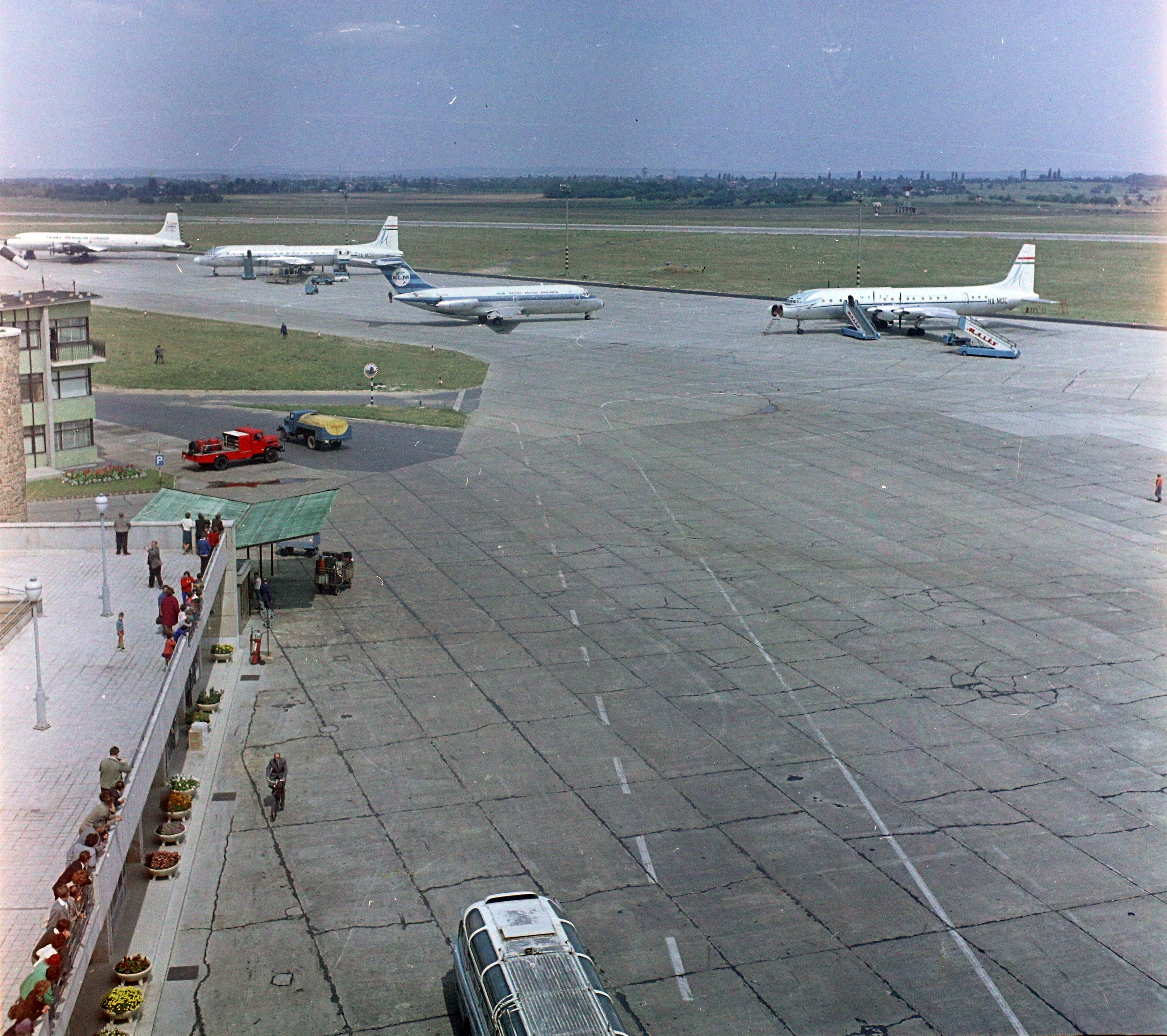 Location: Hungary, Budapest XVIII. Tags: colorful, airplane, airport, Douglas-brand, McDonnell Douglas-brand, american brand, KLM Royal Dutch Airlines, Hungarian Airlines, fire truck, Budapest